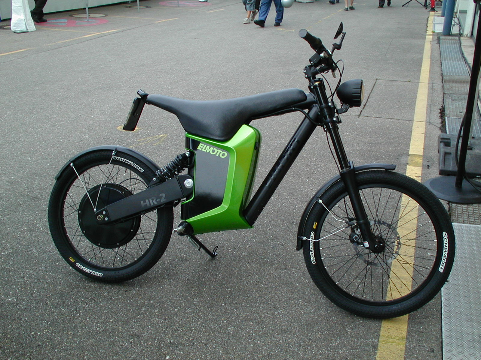 These are the original coulors of the Elmoto. Taken at the start of the EnBW file test in Stuttgart.